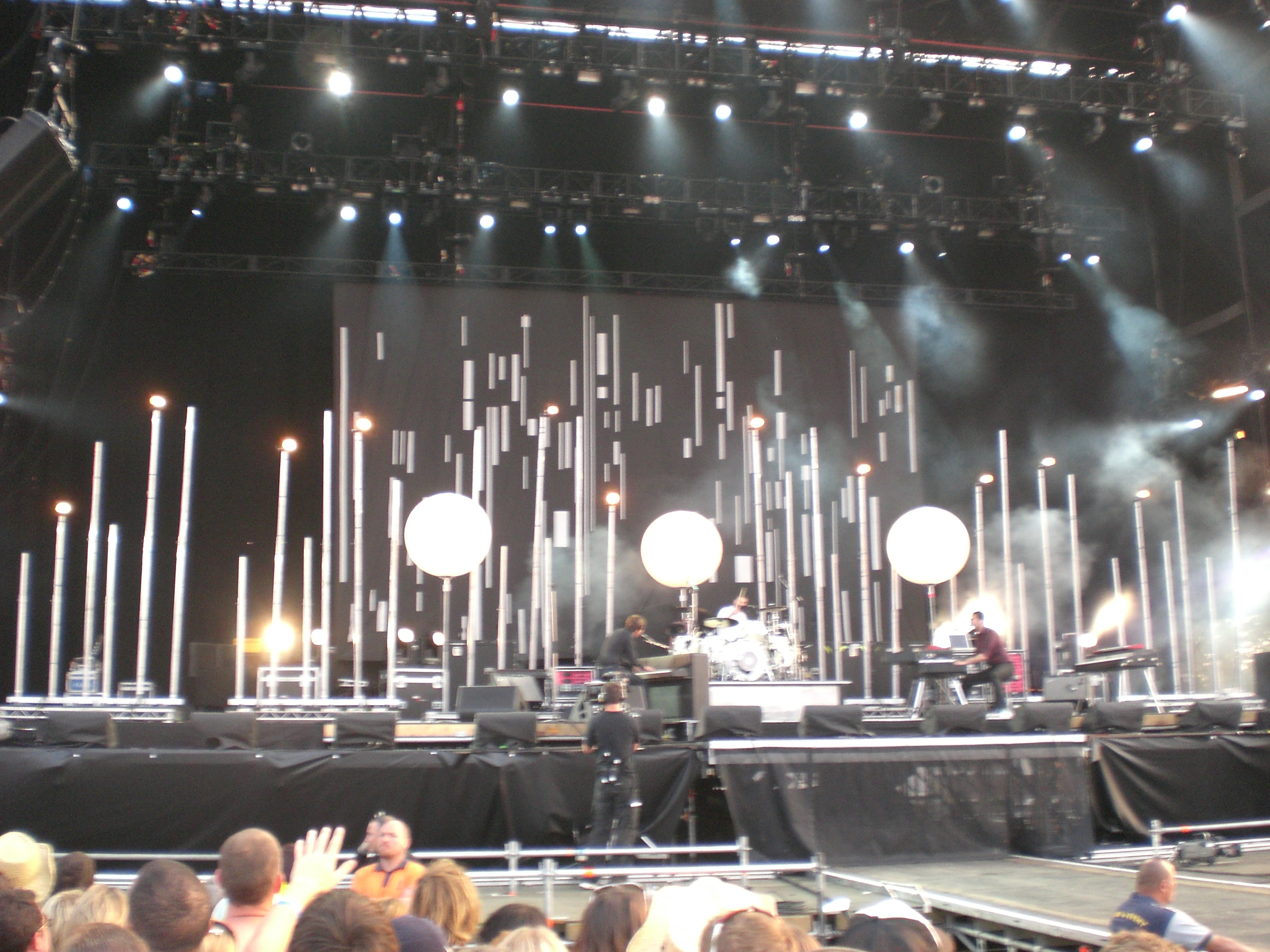 Keane's stage at the Isle of Wight Festival 2007.